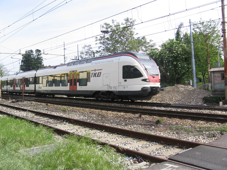 TILO ETR 150 just outside the station of Seregno, direction Como.